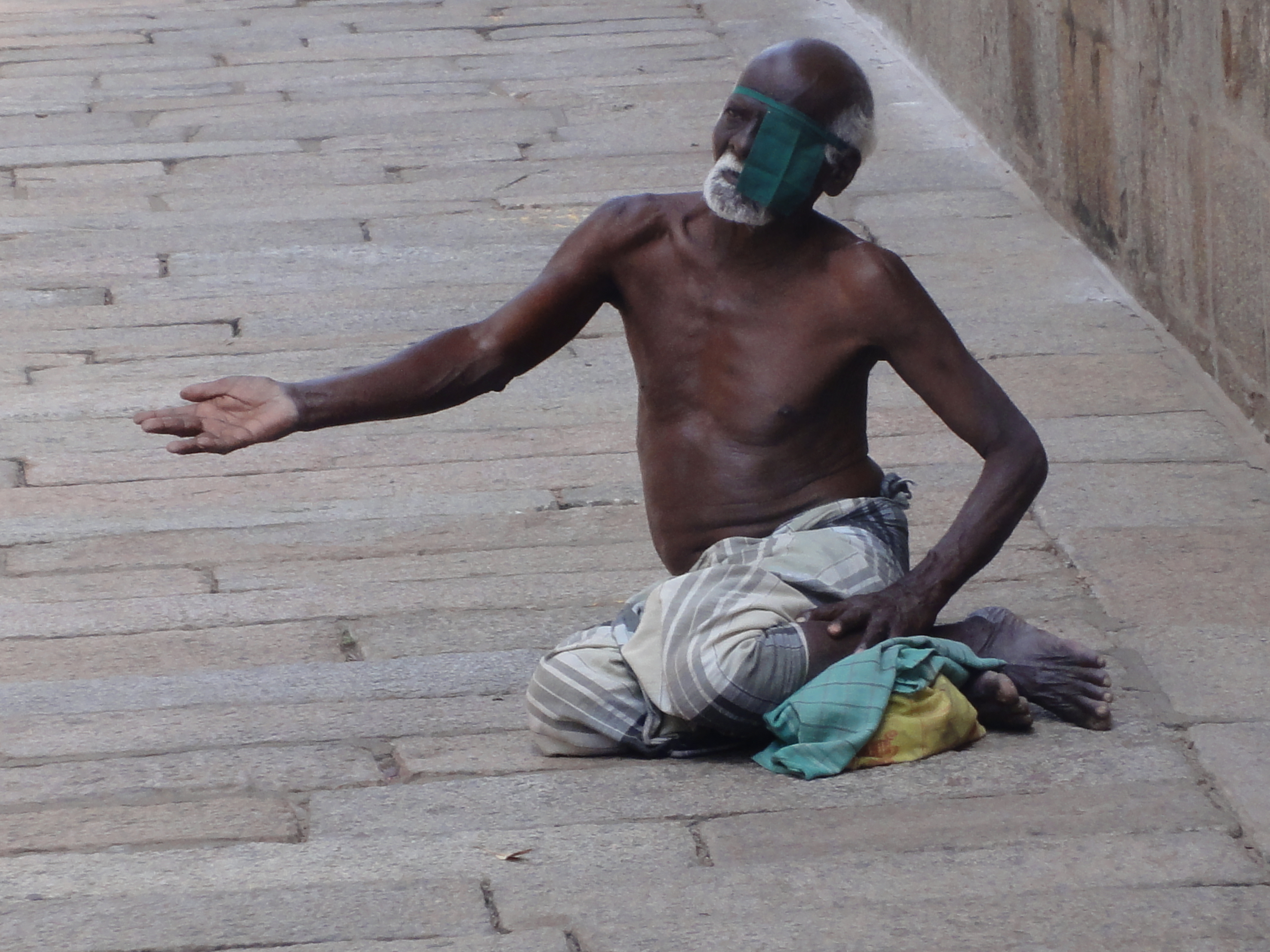 A man asking for food for his livelihood in a temple in India.